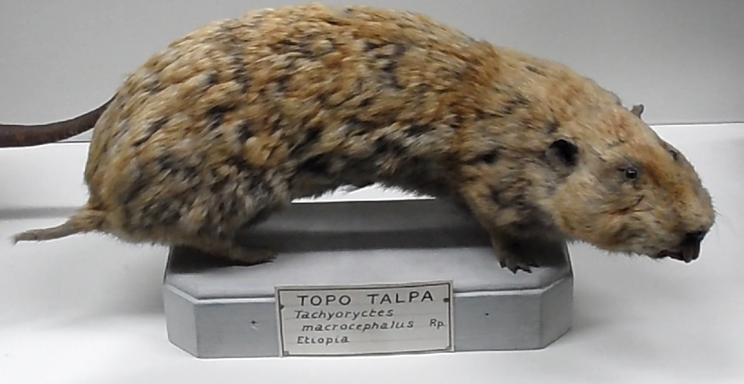 Giant mole rat on display in the Natural History Museum of Genoa